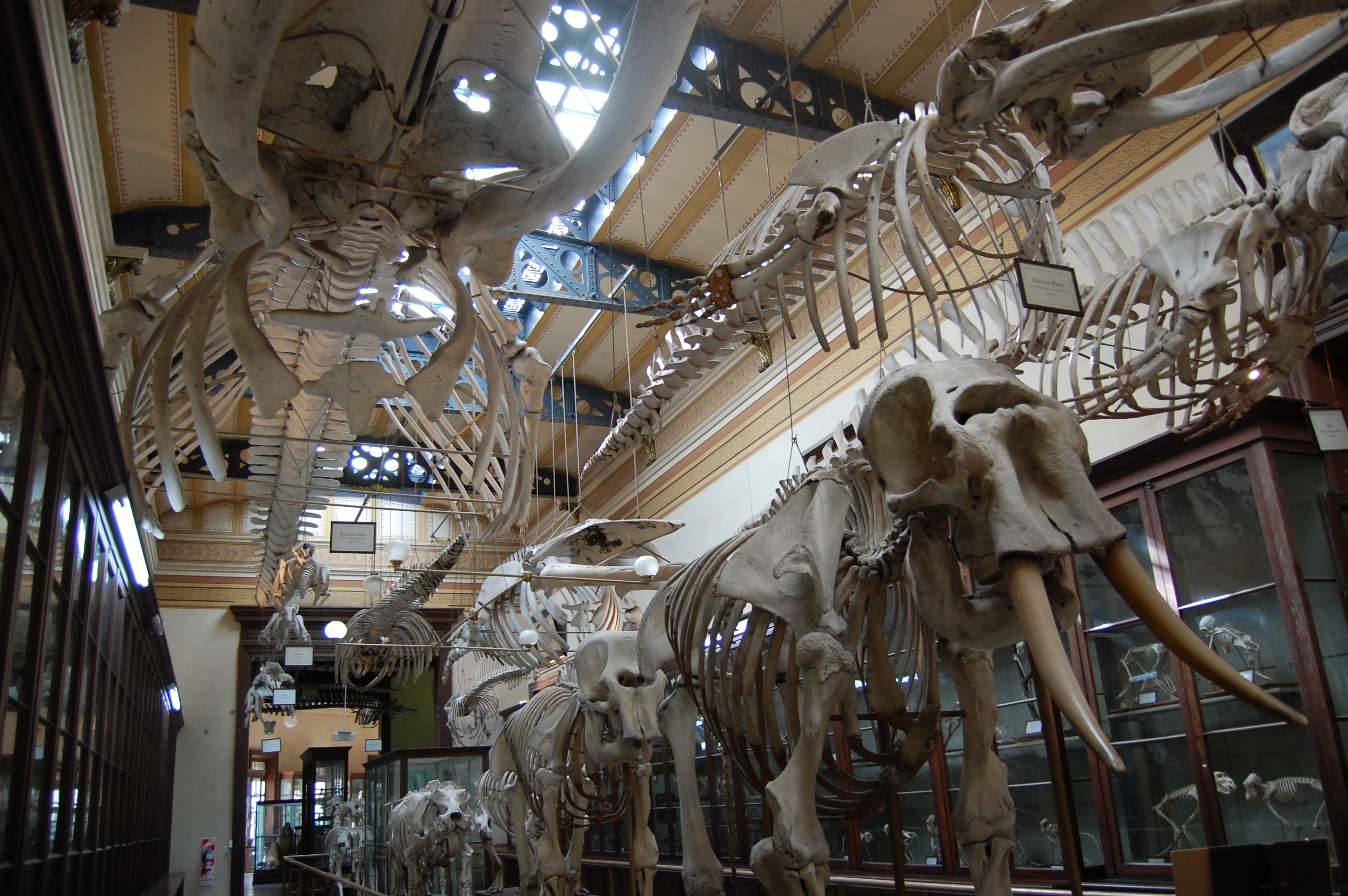 Compared Osteology Room in Natural History Museum of La Plata, Argentina.